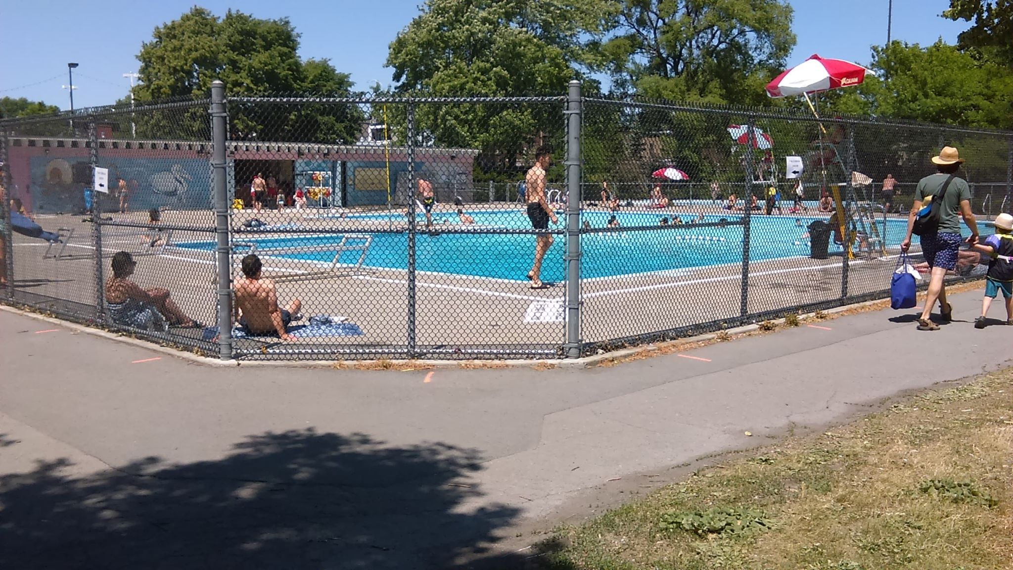 Swimming pool at Parc Le Pélican on June 20